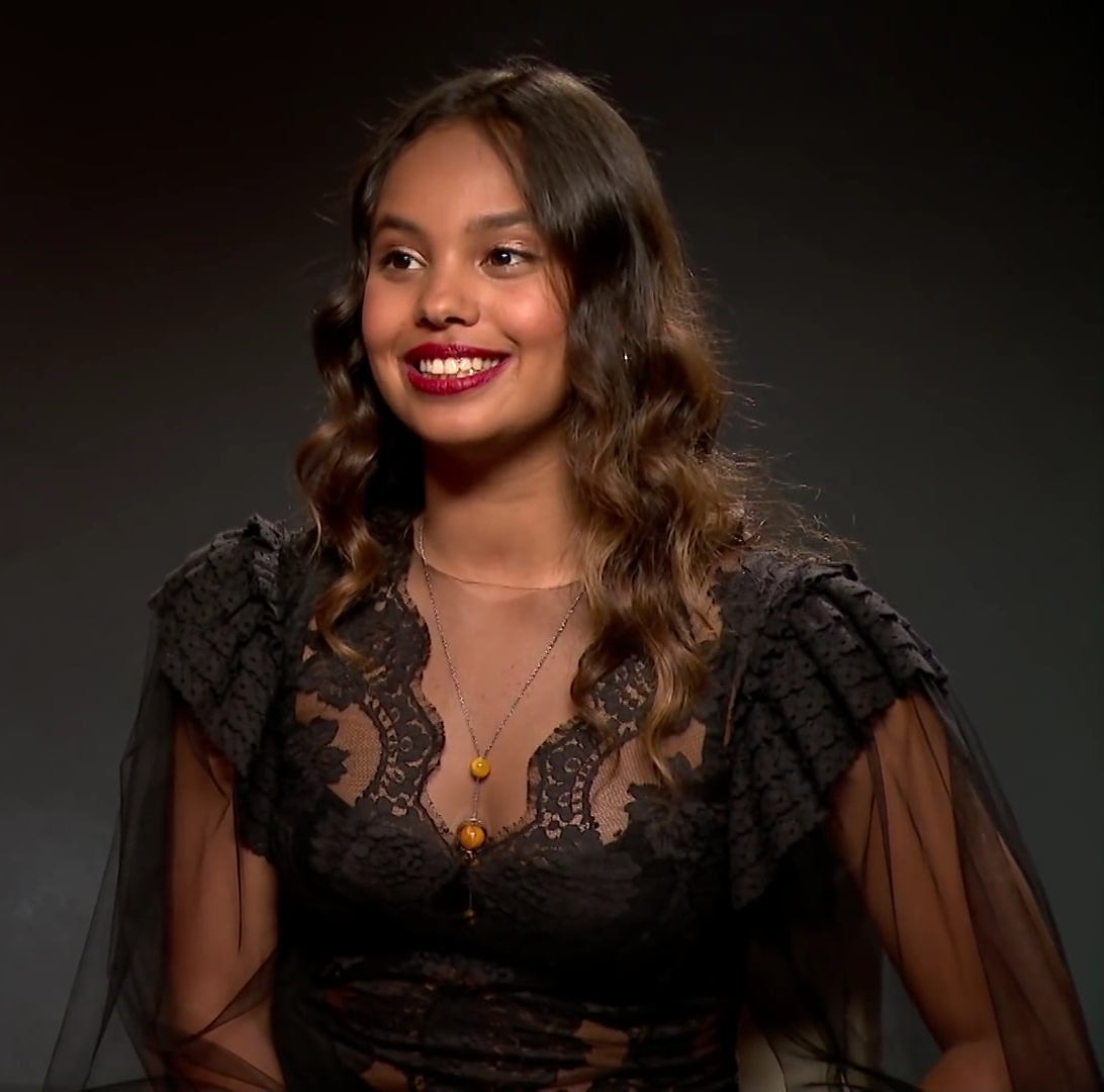 Alisha Boe in 2018, image from video at 2:22.